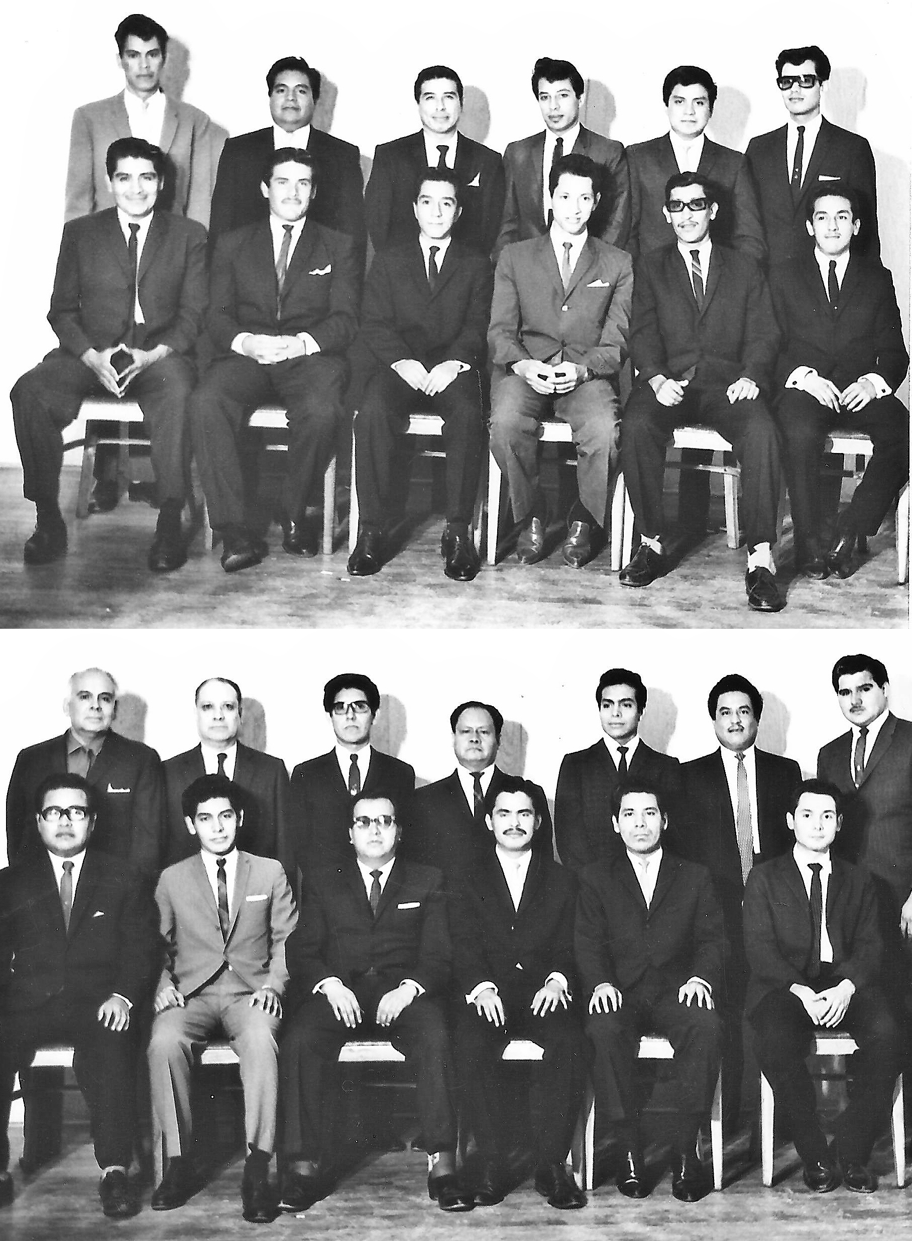 Twenty-five of the 52 musicians who were part of the Symphony Orchestra of Chihuahua in 1963. Top, back row from left to right: 1. Ismael Vázquez (viola), 2. Abelardo Torres C. (trompet), 3. Roberto Rivera M. (trombone), 4. Carlos H. Ortiz C. (trombone), 5. Arturo Reyes S. (trompet), 6. Jaime Hernández Oliva (percussions). Top, front row from left to right: 1. Atonatzin Olivares (french horn), 2. Nicolás Gochy A. (french horn), 3. Manuel Hernández (french horn), 4. Javier Sánchez Cárdenas (timpani), 5. Manuel Guiza M. (trombone), 6. Leonardo Ballesteros (percussions). Bottom, back row from left to right: 1. Ángel Rocha Patiño (viola), 2. (Not available), 3. David Ramírez (cello), 4. Justino Xique (bass), 5. Rodolfo Tovar (bass), 6. Enrique Hernández (bassoon), 7. Raymundo Gómez (bass). Bottom, back row from left to right: 1. Manuel Ortiz Pacheco (clarinet), 2. Juan Ramírez (violin), 3. Salomón Xique (cello), 4. Alberto Xique (cello), 5. Saúl Ramírez (viola), 6. Mtro. Moncada (bassoon)